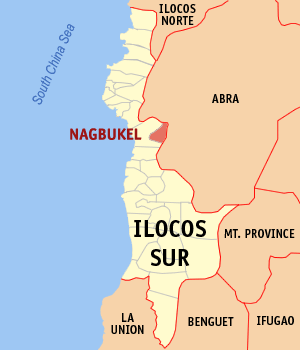 Map of Ilocos Sur showing the location of Nagbukel